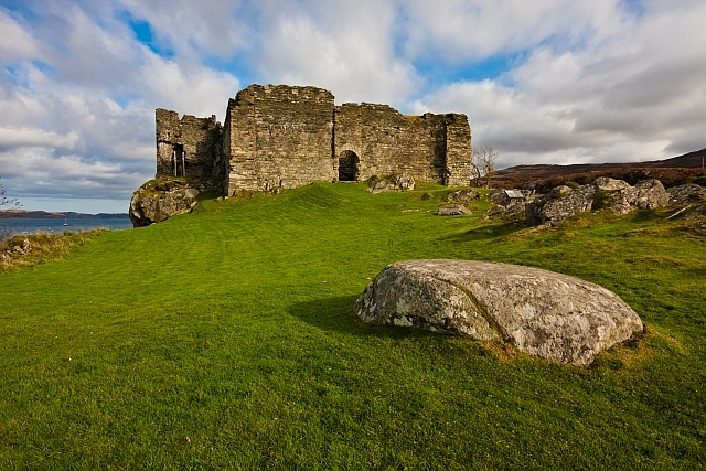 Caisteal Suaine The 12th century stronghold of the MacSweens abandoned in 1645